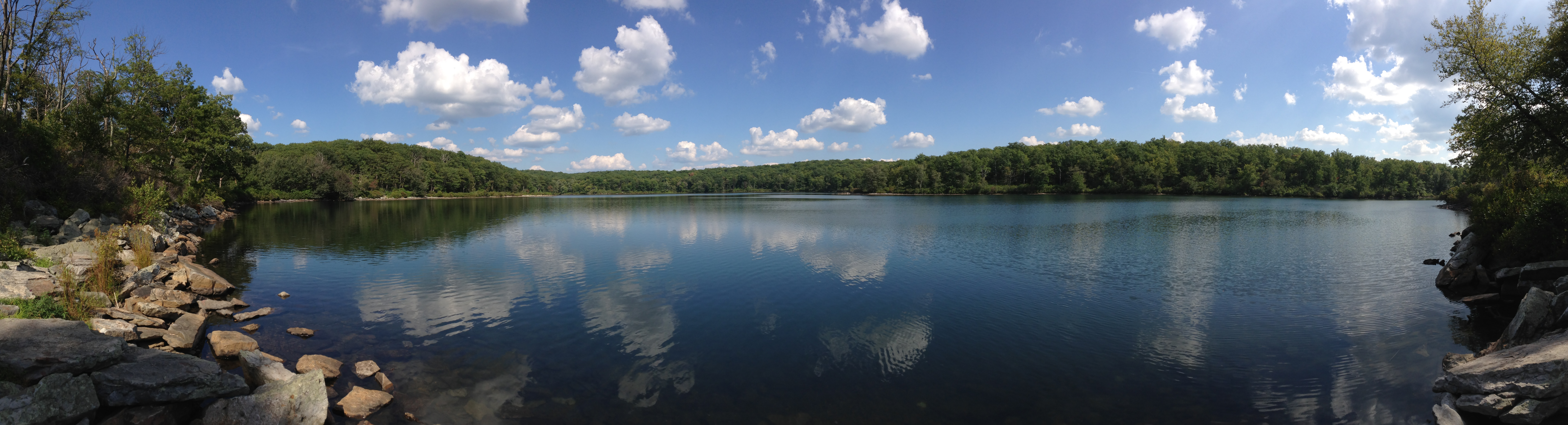 Panorama of Sunfish Pond from the Appalachian Trail about 3.9 miles northeast of the Delaware Water Gap in Worthington State Forest, New Jersey